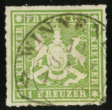 Kingdom of Wurtemberg 1 kreuzer stamp, durchtochen perforated issue 1865, Steigbügel (stirrup) cancelled at WINNENDEN.